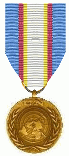 UNAMET and UNTAET Medal of the UN